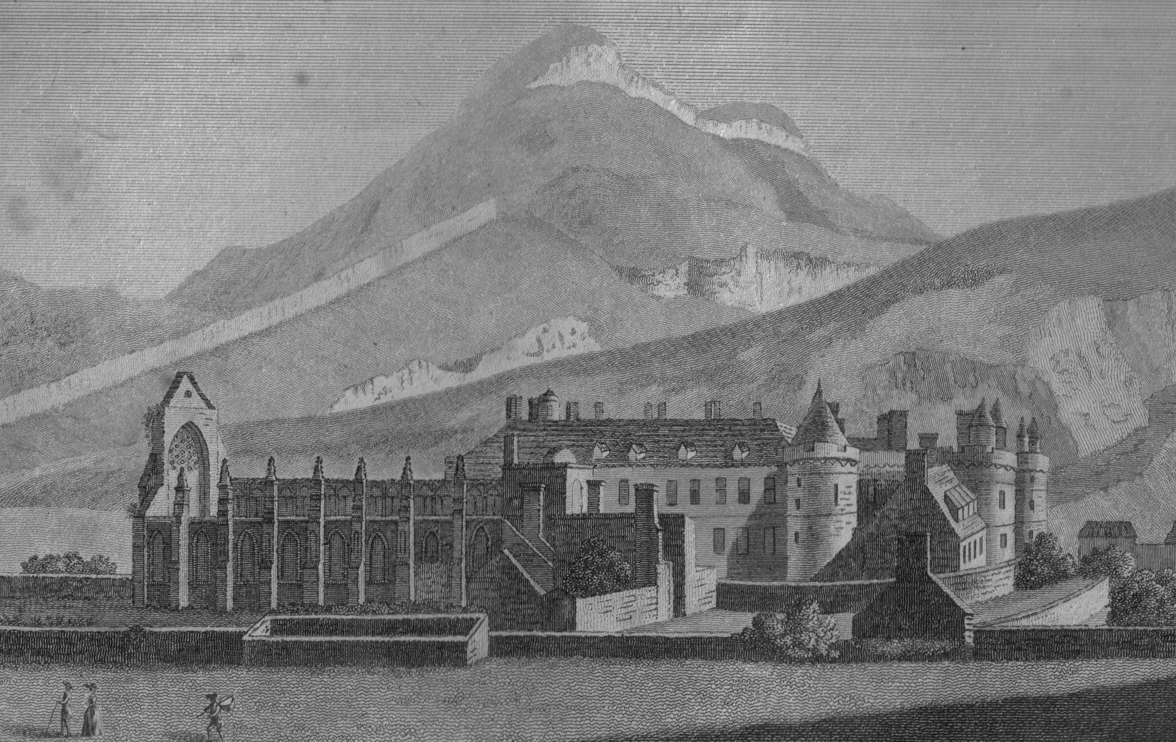 Holyroodhouse Palace and Abbey in 1789